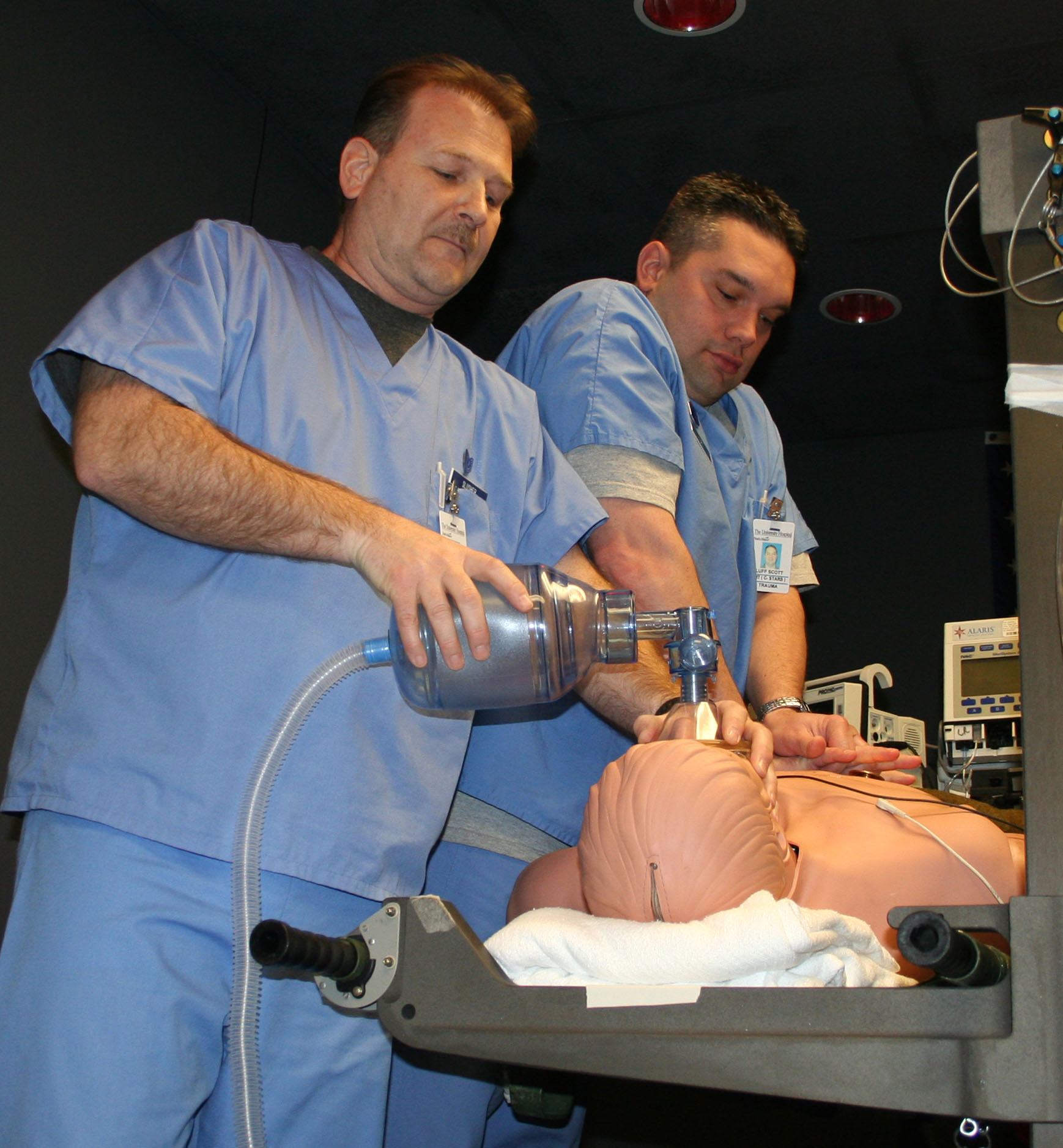 Tech. Sgt. Alfred Slusher (left) and Master Sgt. Scott Luff provide Cardiopulmonary Resuscitation (CPR) to a mannequin that is connected to a computer to monitor if the procedures are correct. (U.S. photo by Maj. Ted Theopolos)